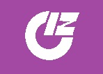 Flag of Nishinasuno Tochigi